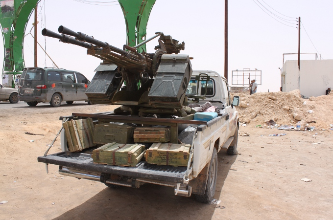 The modified pick-up truck, or "technical," is a trademark of modern, unconventional warfare. Both rebels and government forces have used them extensively during the conflict. This one is carrying an anti-aircraft gun, ammunition, and petrol stored in plastic barrels.